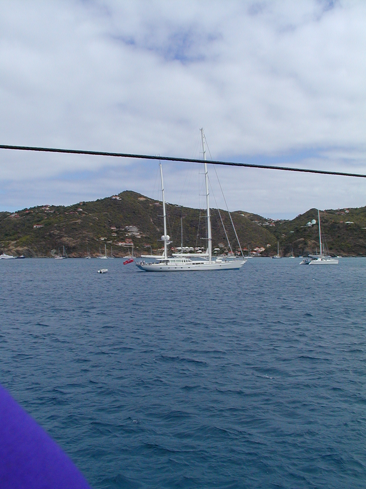 Nevis Island, West Indies from the Windjammer Polynesia